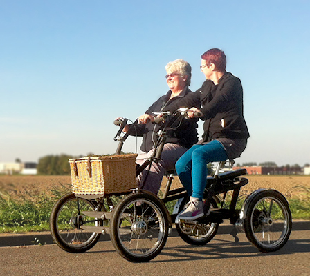 Duofiets with 4 wheels